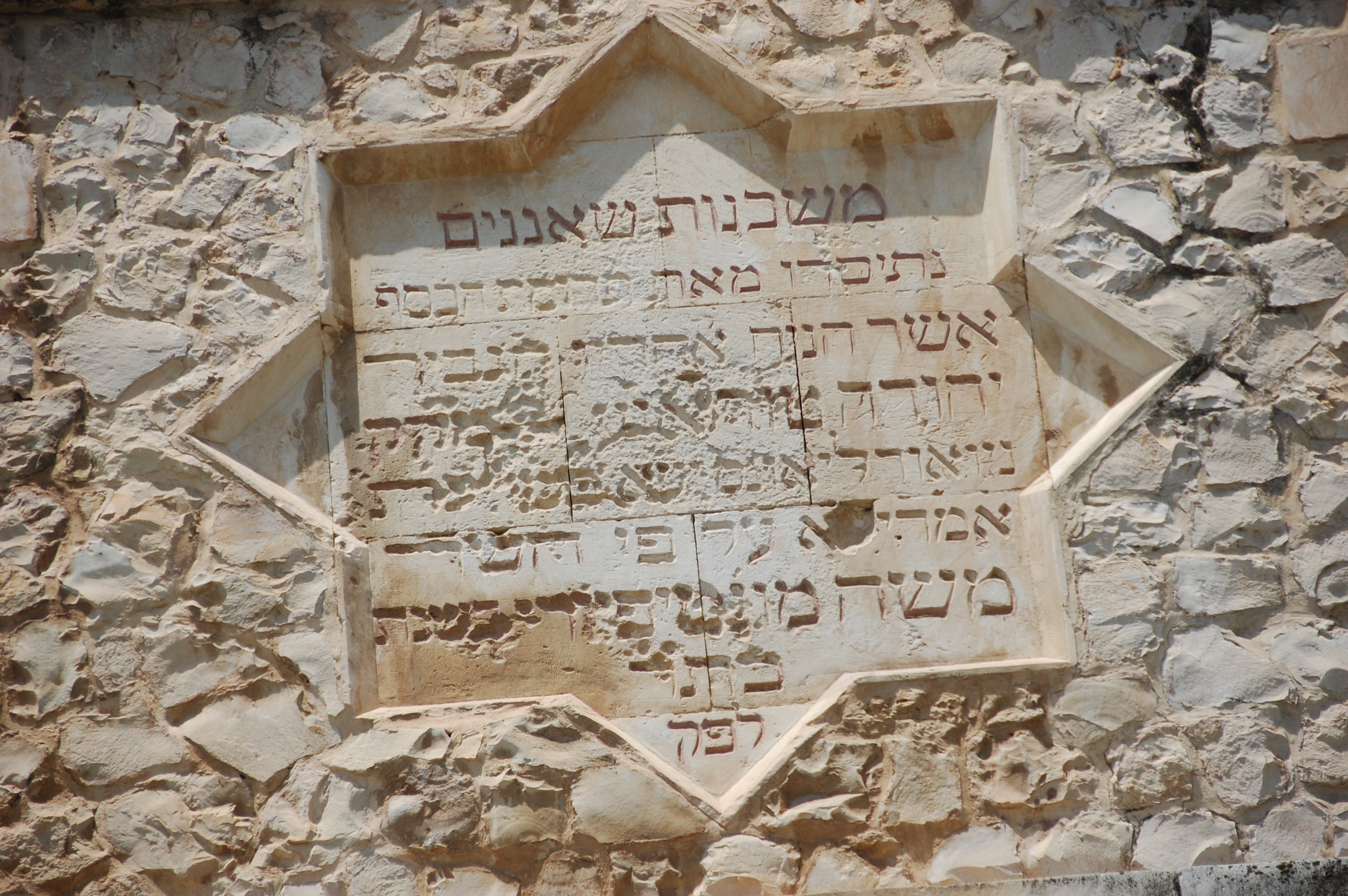 Mishkenot Sha'ananim's sign in close up